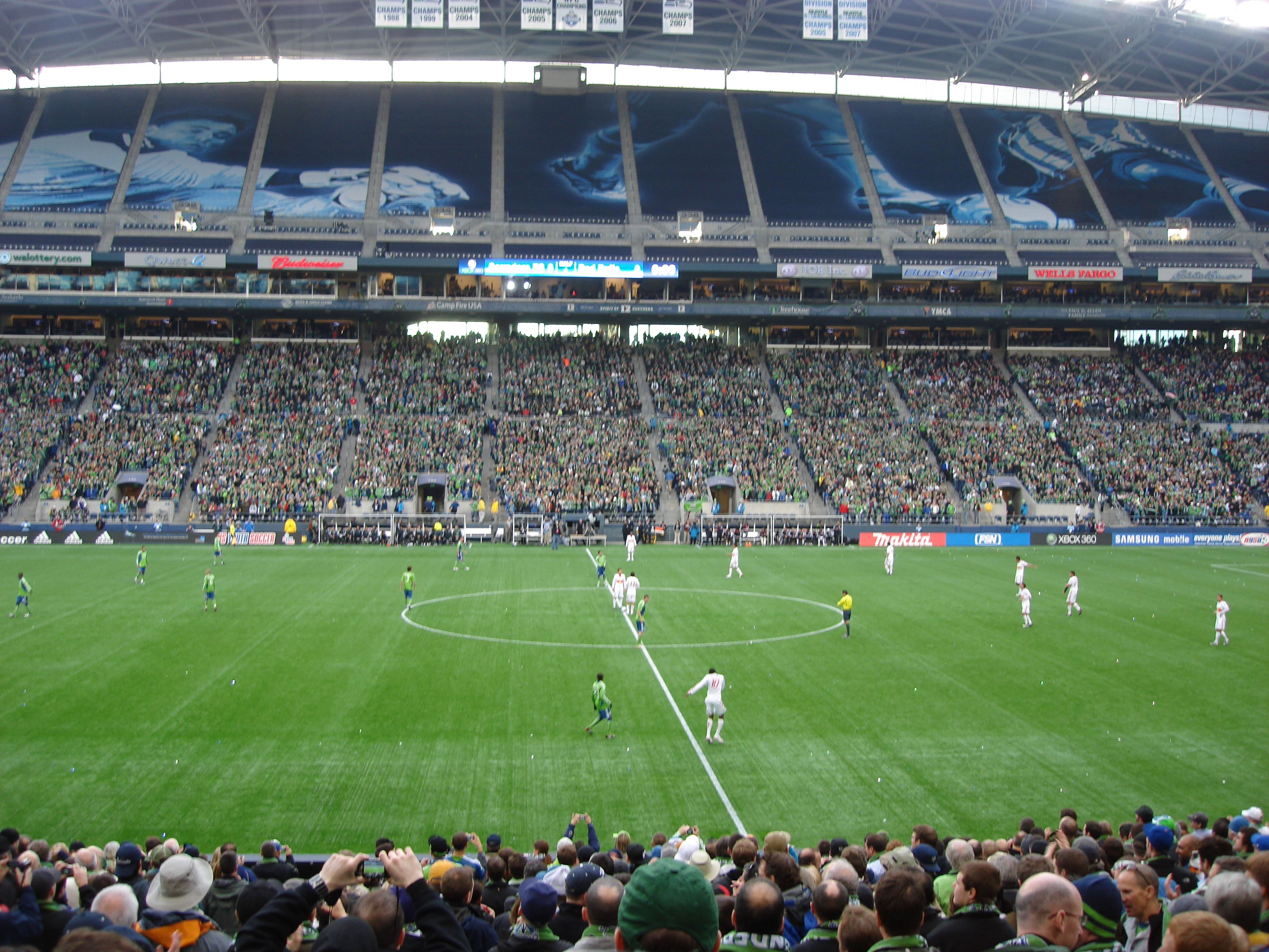 The New York Red Bulls kick off to start the inaugural match for the Seattle Sounders at Qwest Field during the 2009 MLS Season. Original description - "NY Red Bulls @ Seattle Sounders FC kick off the season for Major League Soccer."